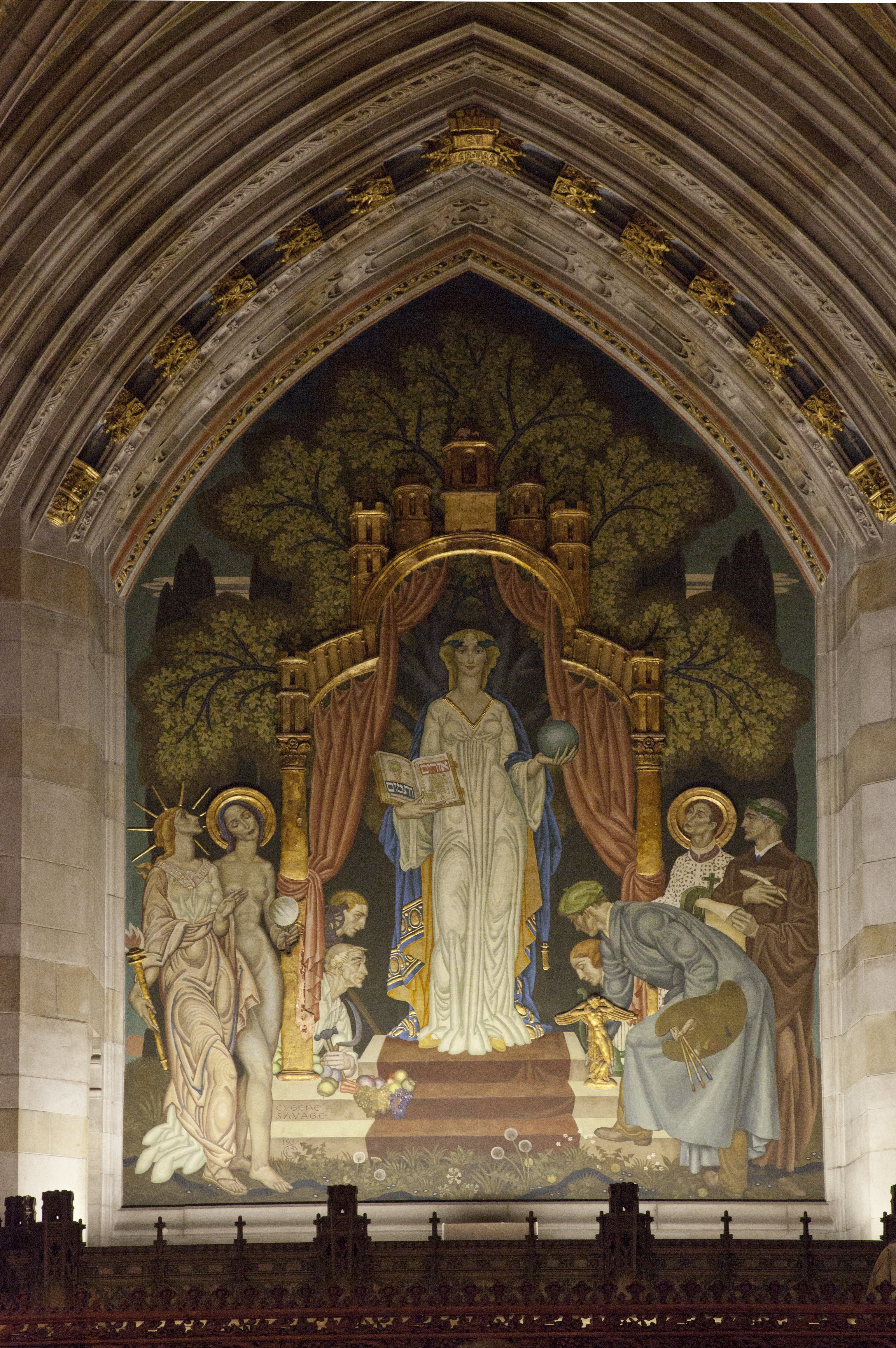 Alma Mater mural by Eugene Savage in Sterling Memorial Library nave, Yale University, New Haven, CT